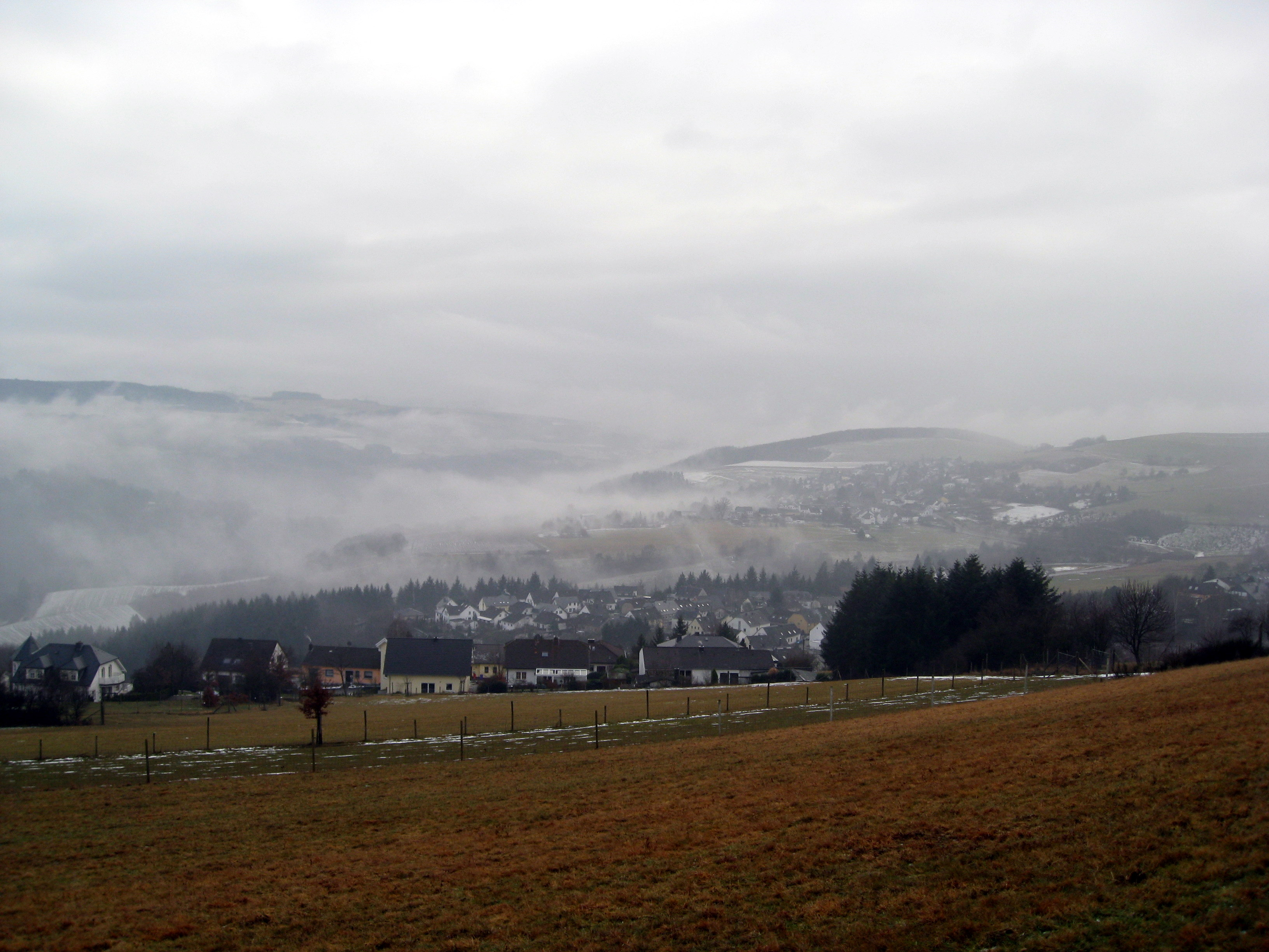 View on Korlingen (and Gutweiler in the background)